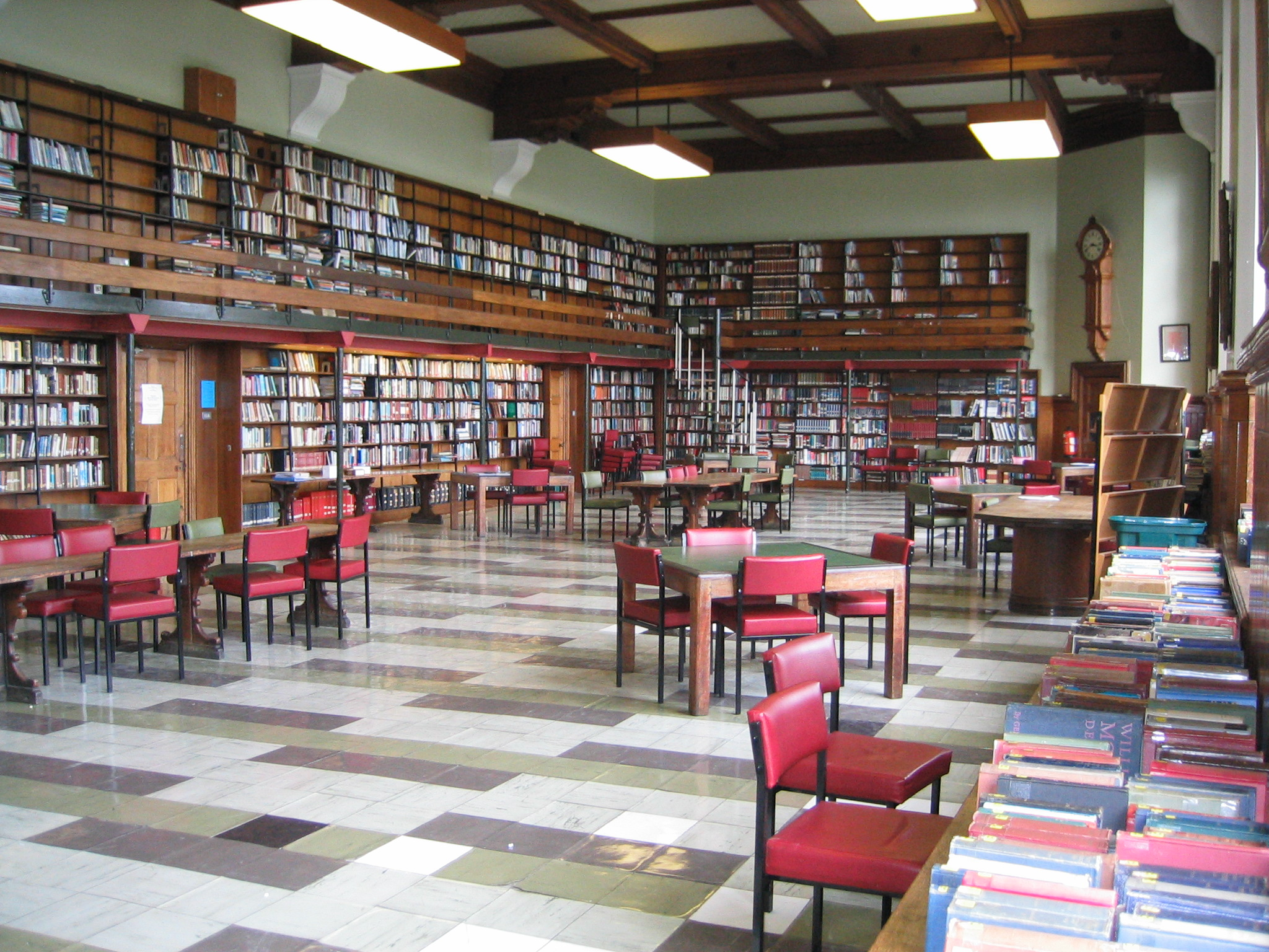 More Library prior to refurbishment, Stonyhurst College, Lancashire